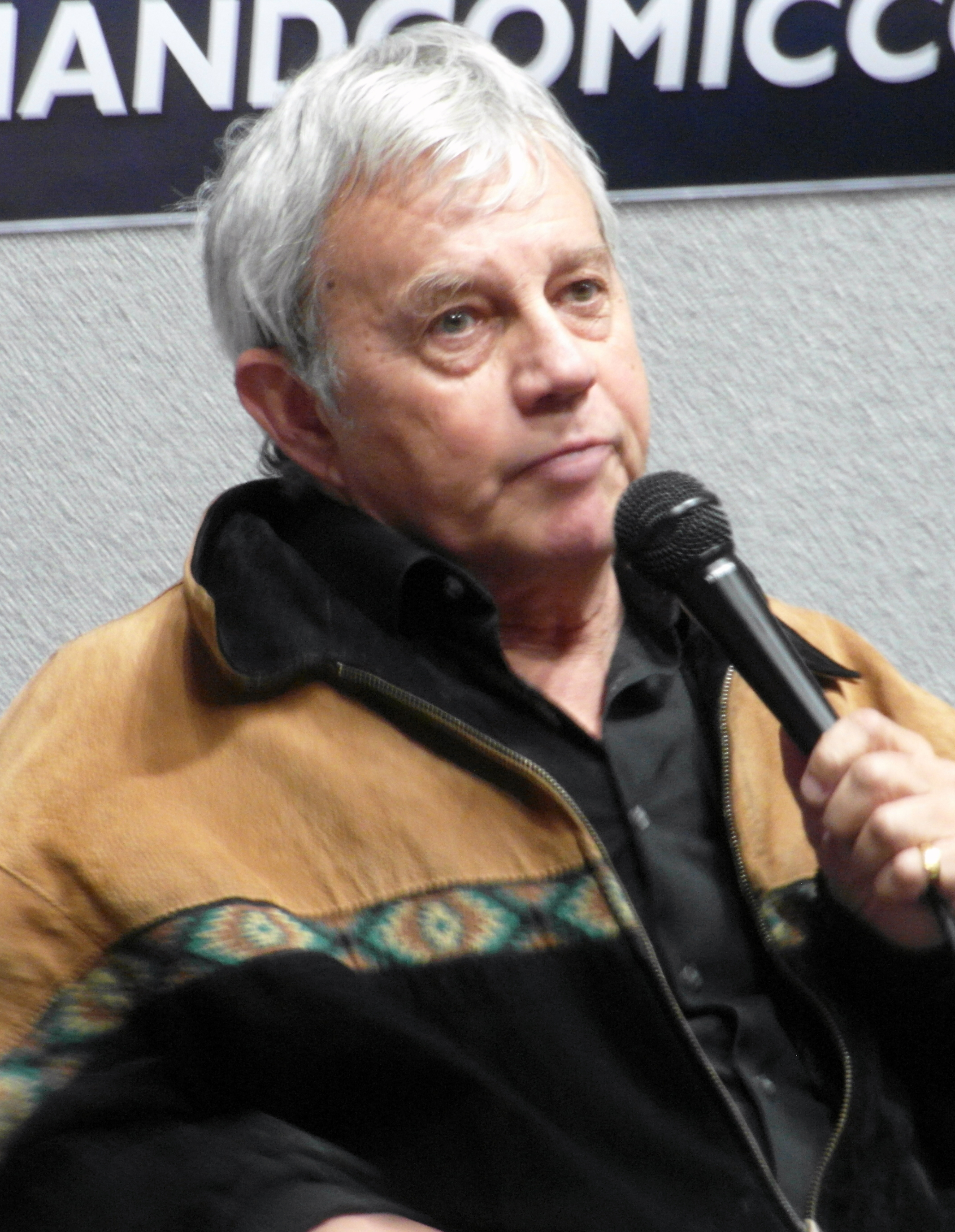 The Doctor Who panel. Frazer Hines (Jamie McCrimmon) takes questions from the audience.